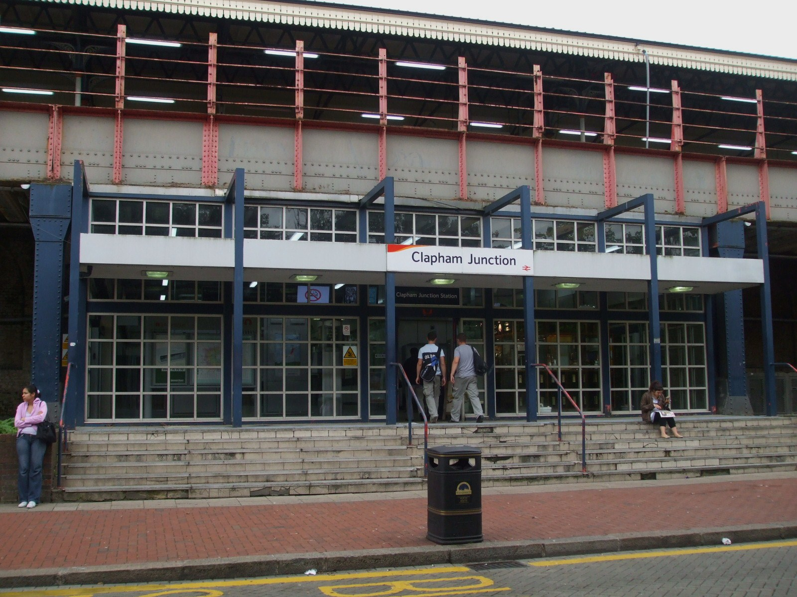 Clapham Junction station northern entrance